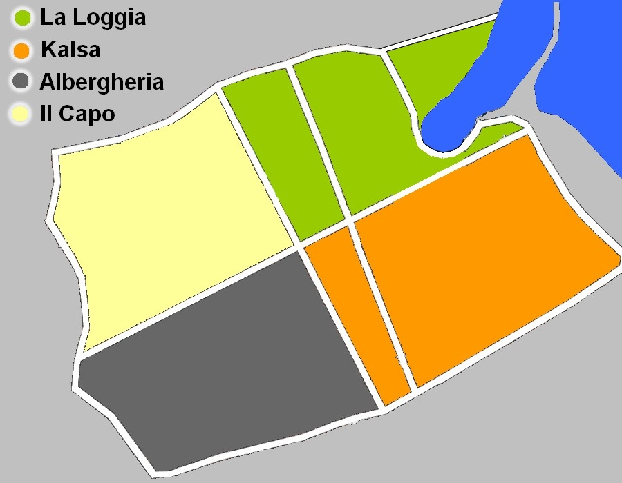 The Four Quarters or Mandamenti of the Old City of Palermo (Italy).